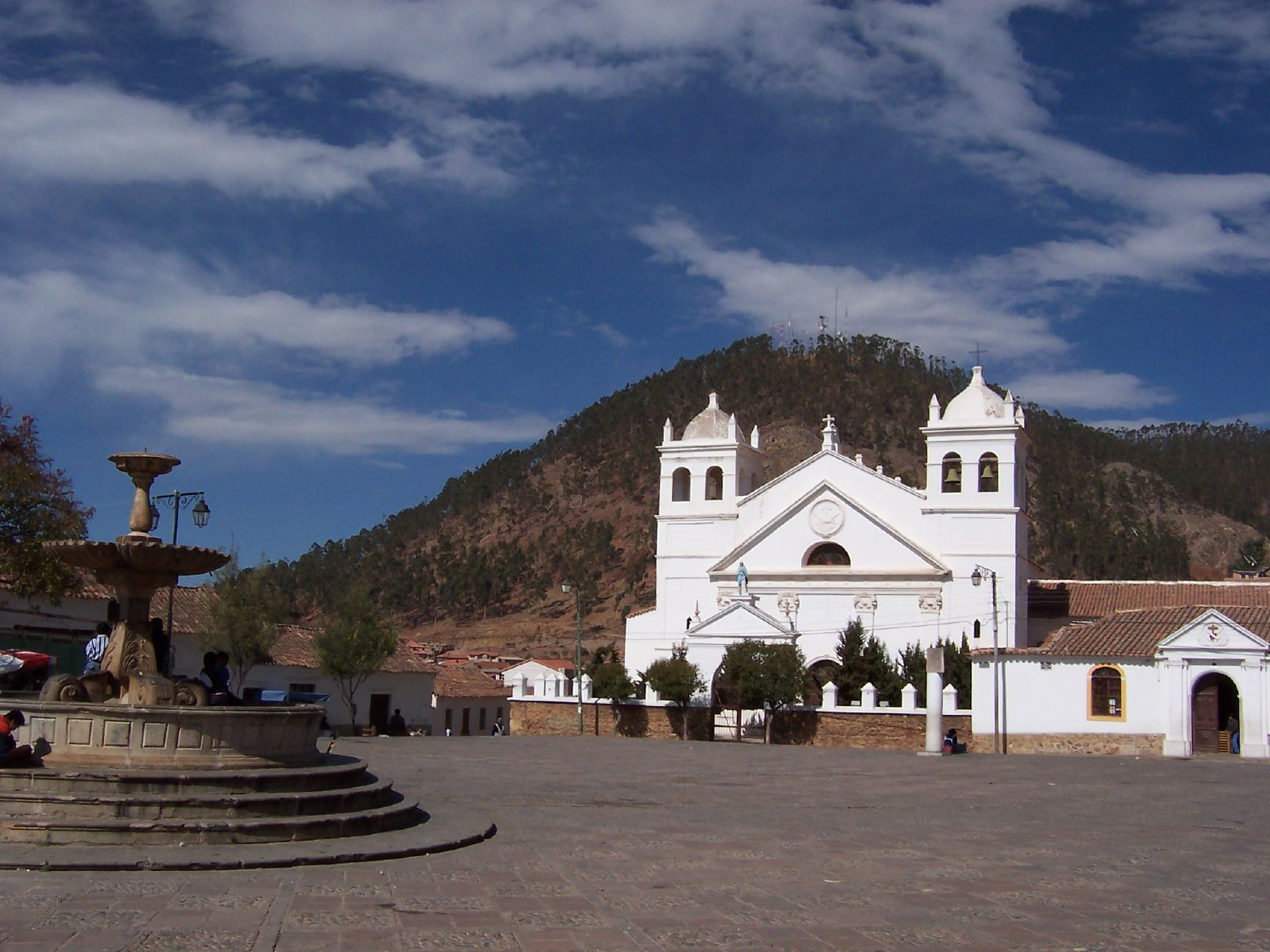 Square and Catholic church in Bolivia.